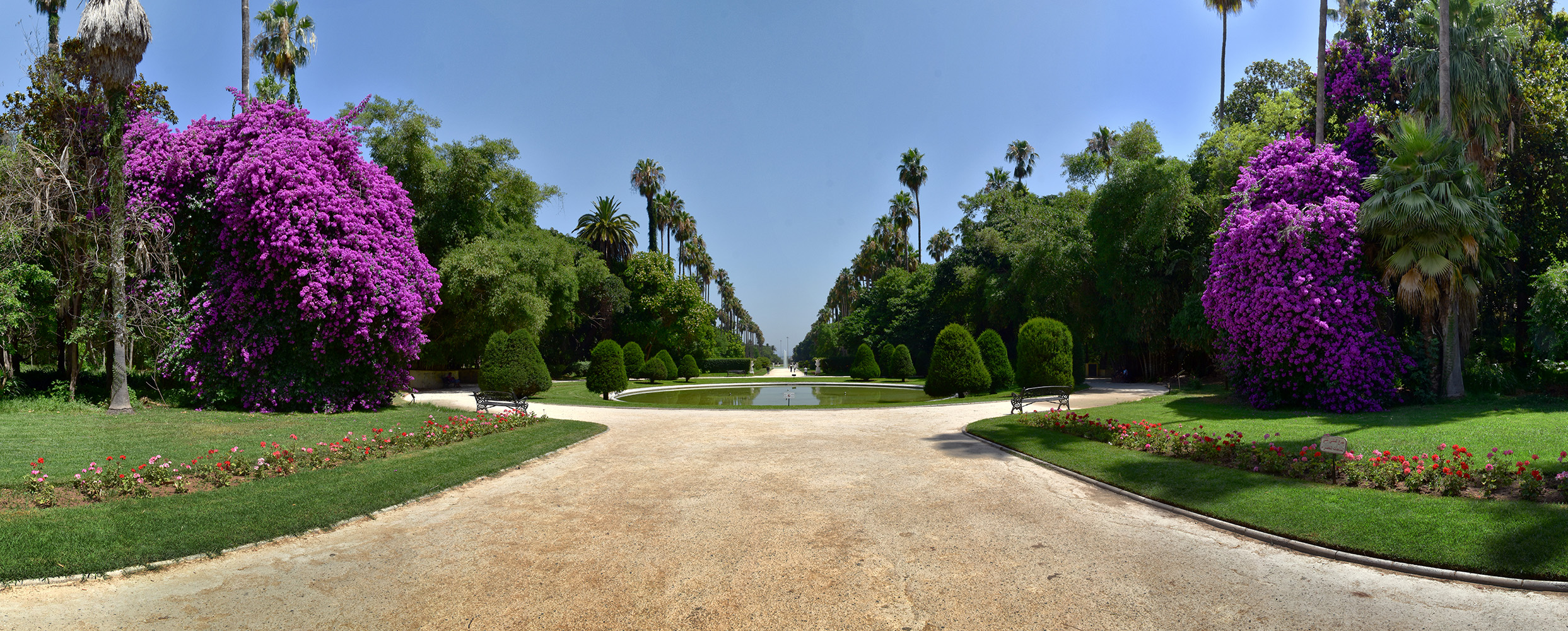 Botanical Garden Hamma in the Mohamed Belouizdad district of Algiers